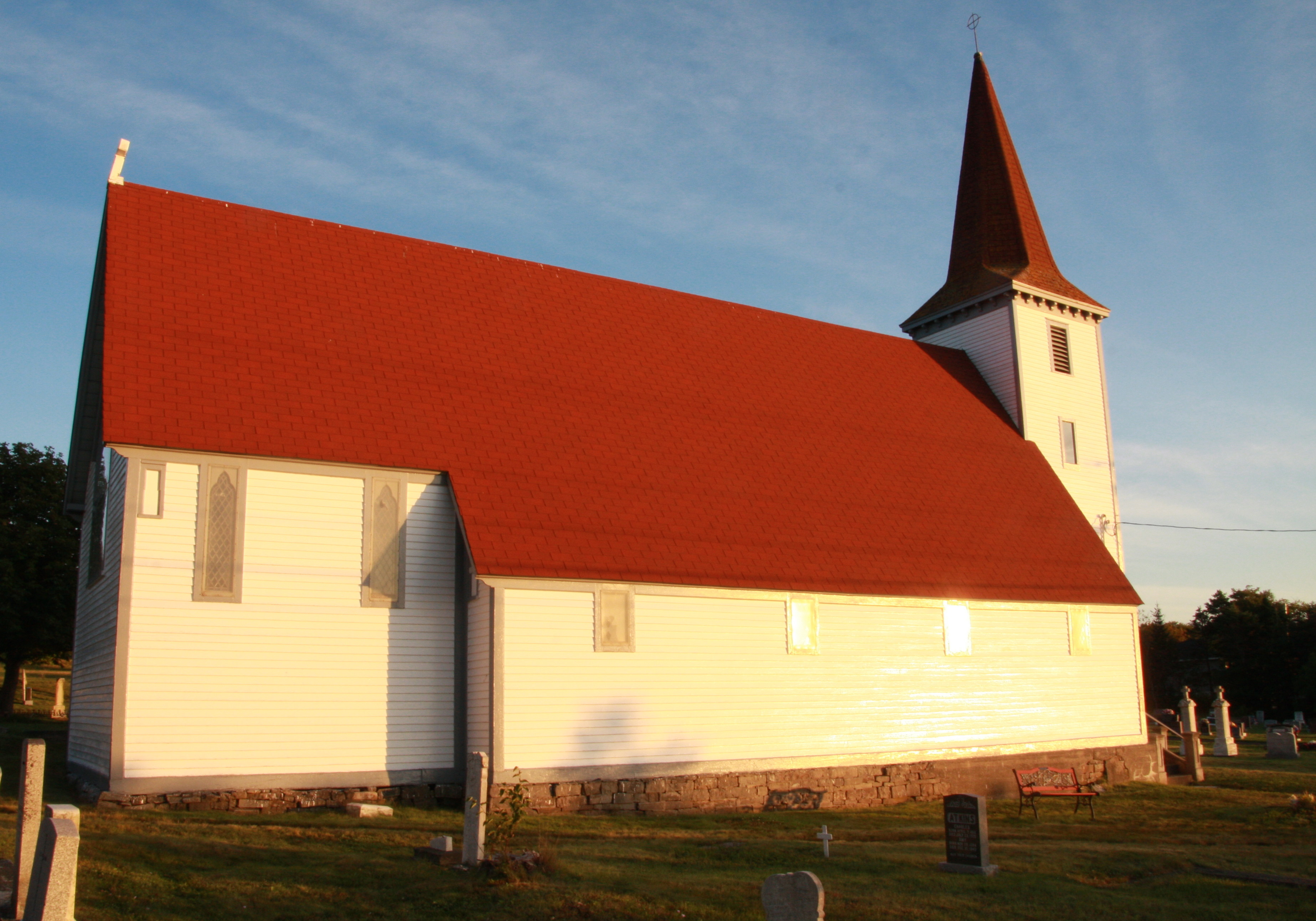 This church is located on Spruce Hill Road in Conception Bay South, NL.